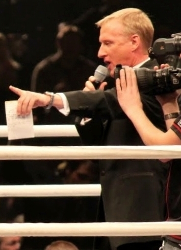 Jimmy Lennon, Jr. at Hartwall Arena in Helsinki, Finland on November 27, 2010.